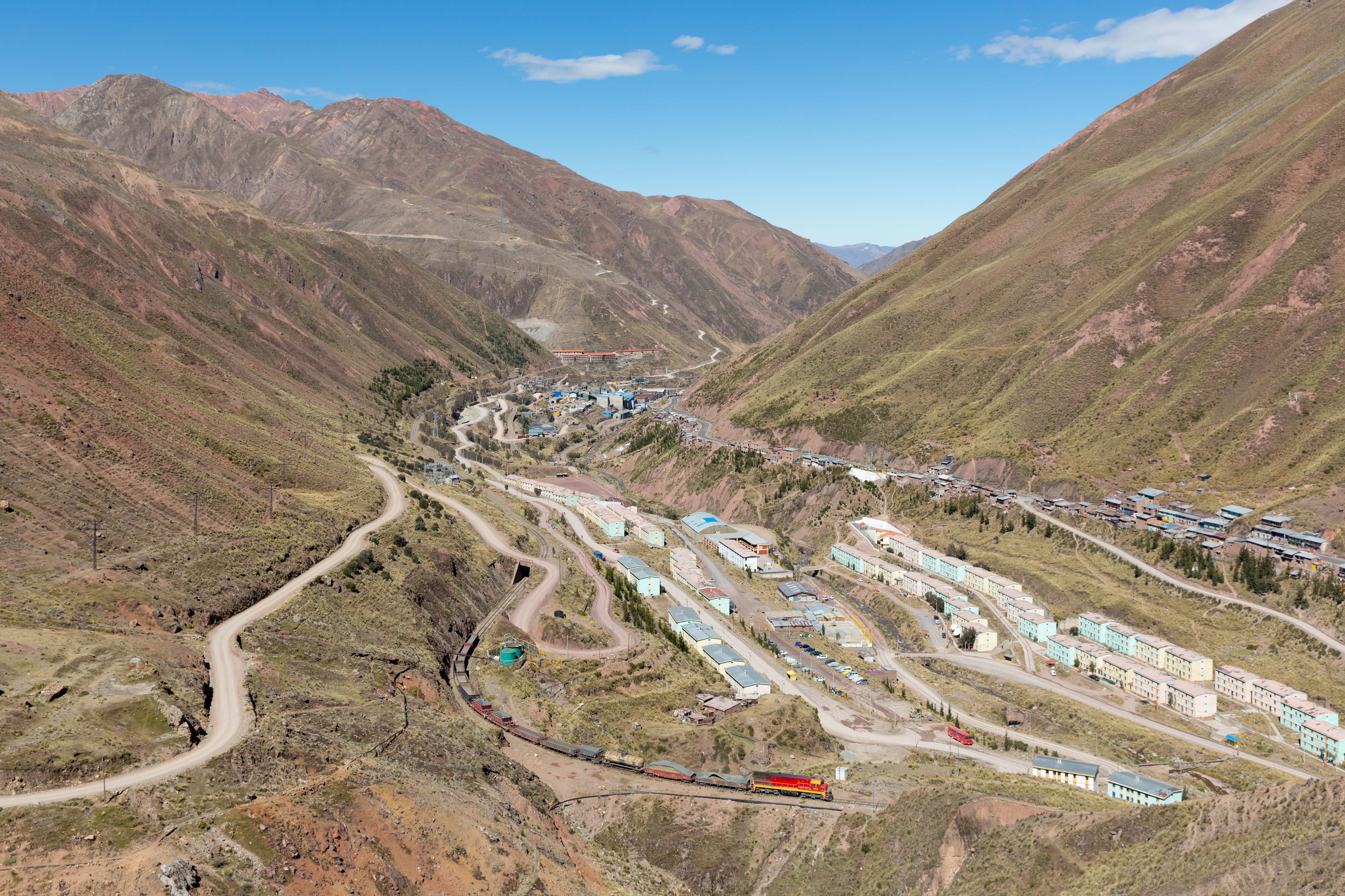 One of Ferrocarril Central Andino's GE C30-7 has left the switchbacks of Casapalca and is now headed for Chinchan, Peru.